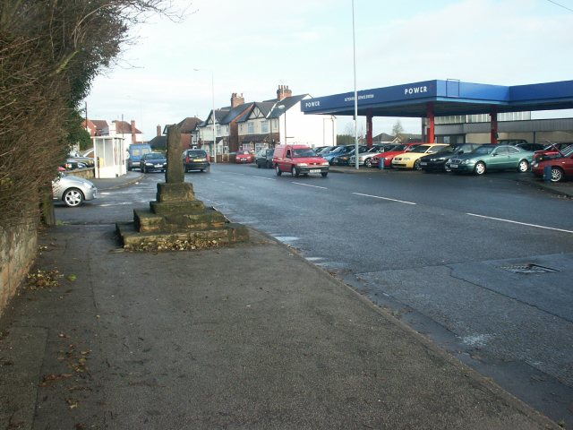 Kirkby Cross, Kirkby in Ashfield. The old market cross. Originally at the centre of the settlement, this is now a conservation area and the commercial centre of Kirkby is at what is strictly called East Kirkby - SK5056